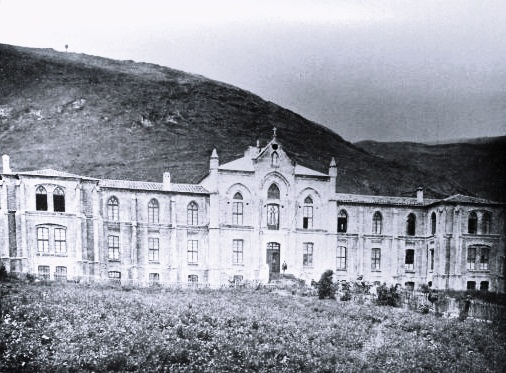 The Arts & Crafts School in Quito